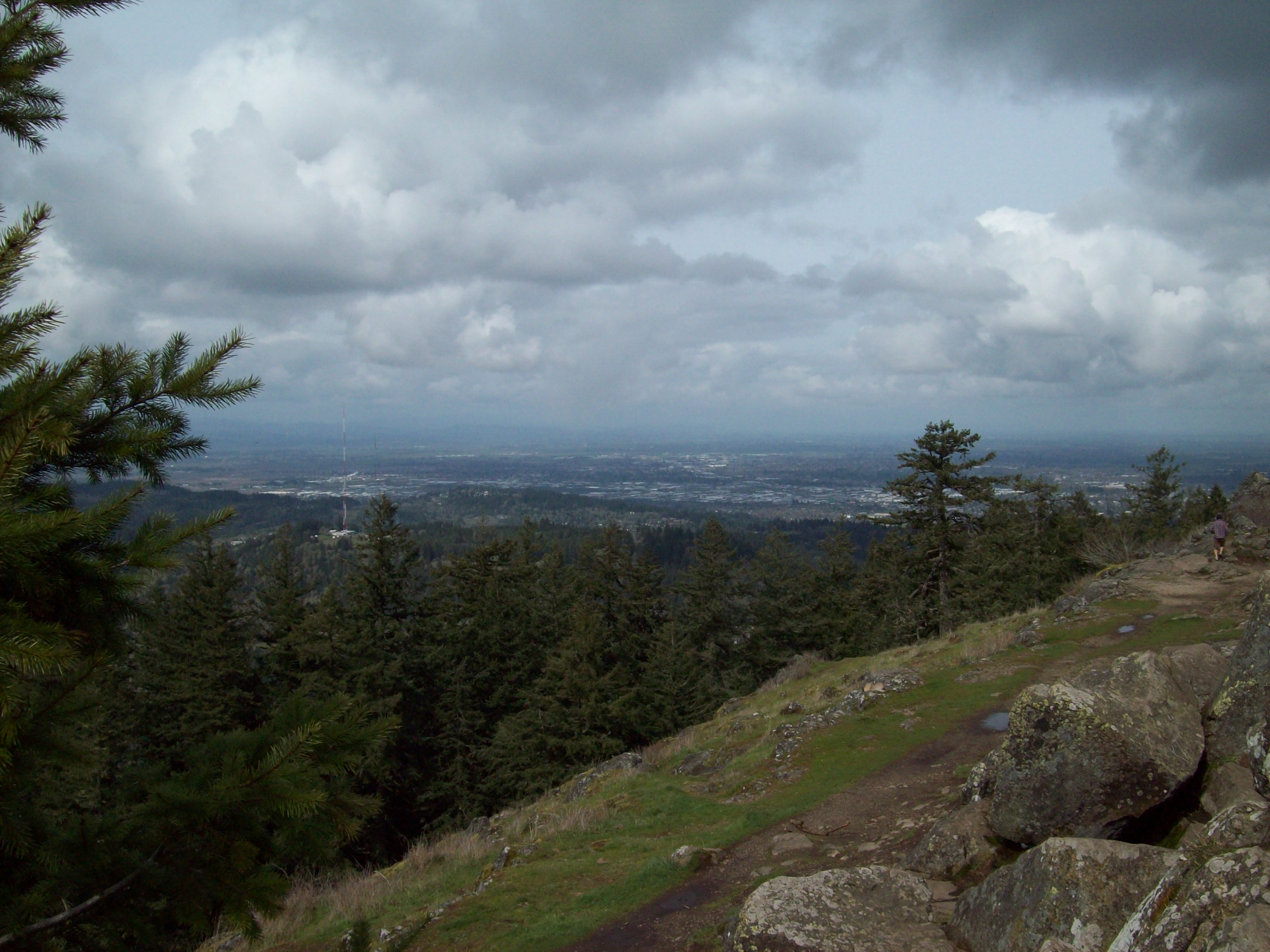 The view across the side of Spencer Butte, near its summit, looking north towards Eugene, Oregon, and the Willamette Valley, USA